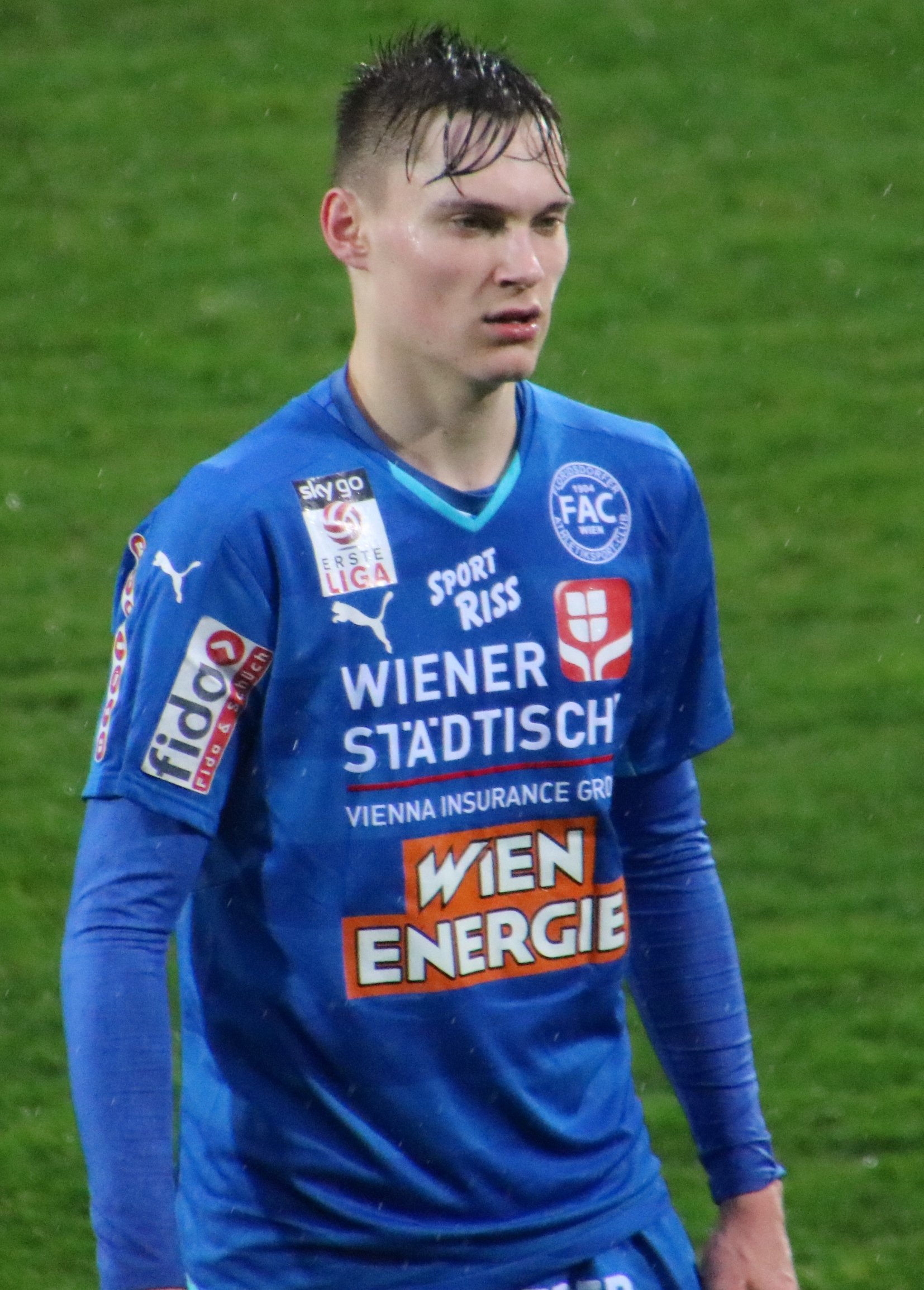 league match Austria 2nd league